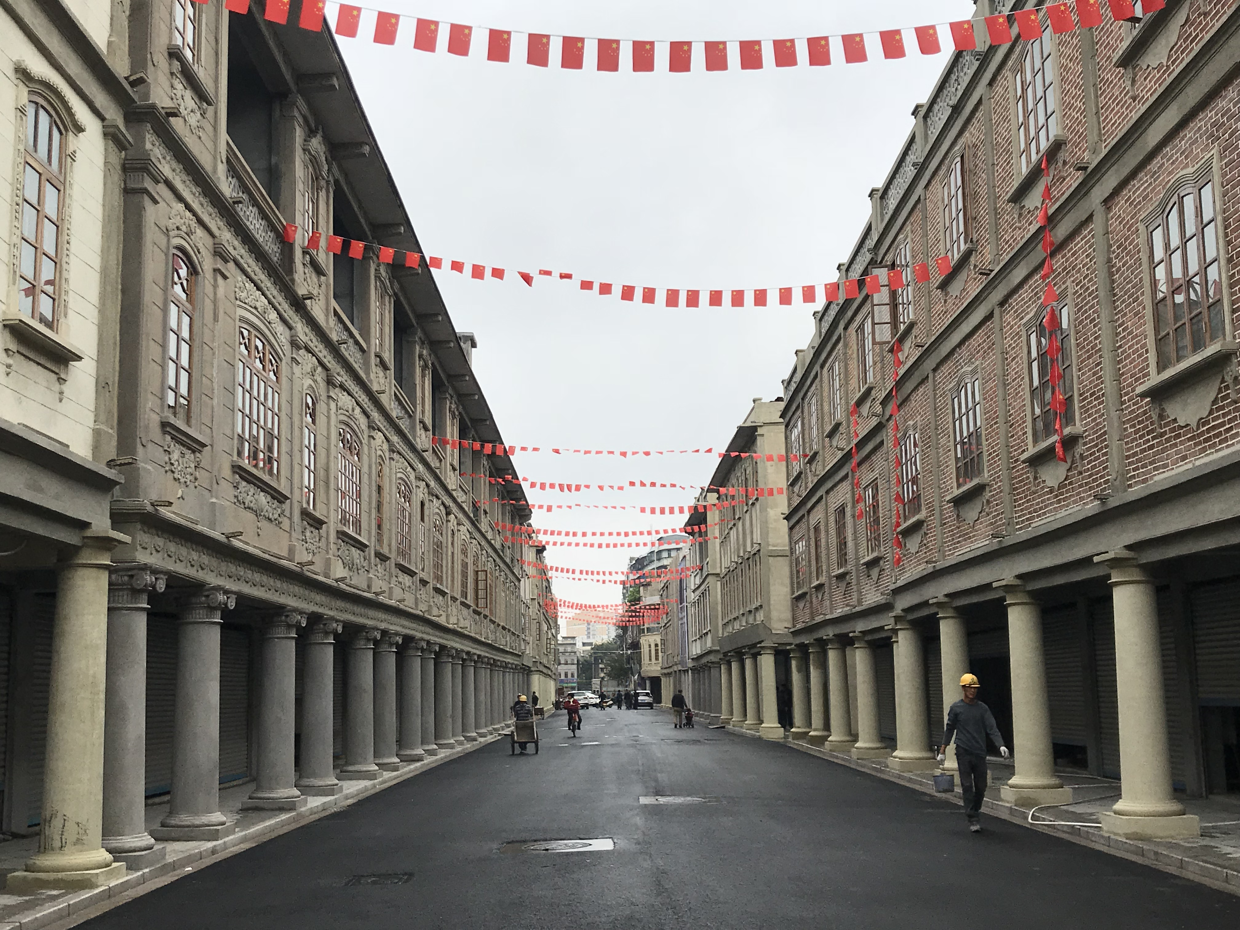 Haiping Road, Shantou City